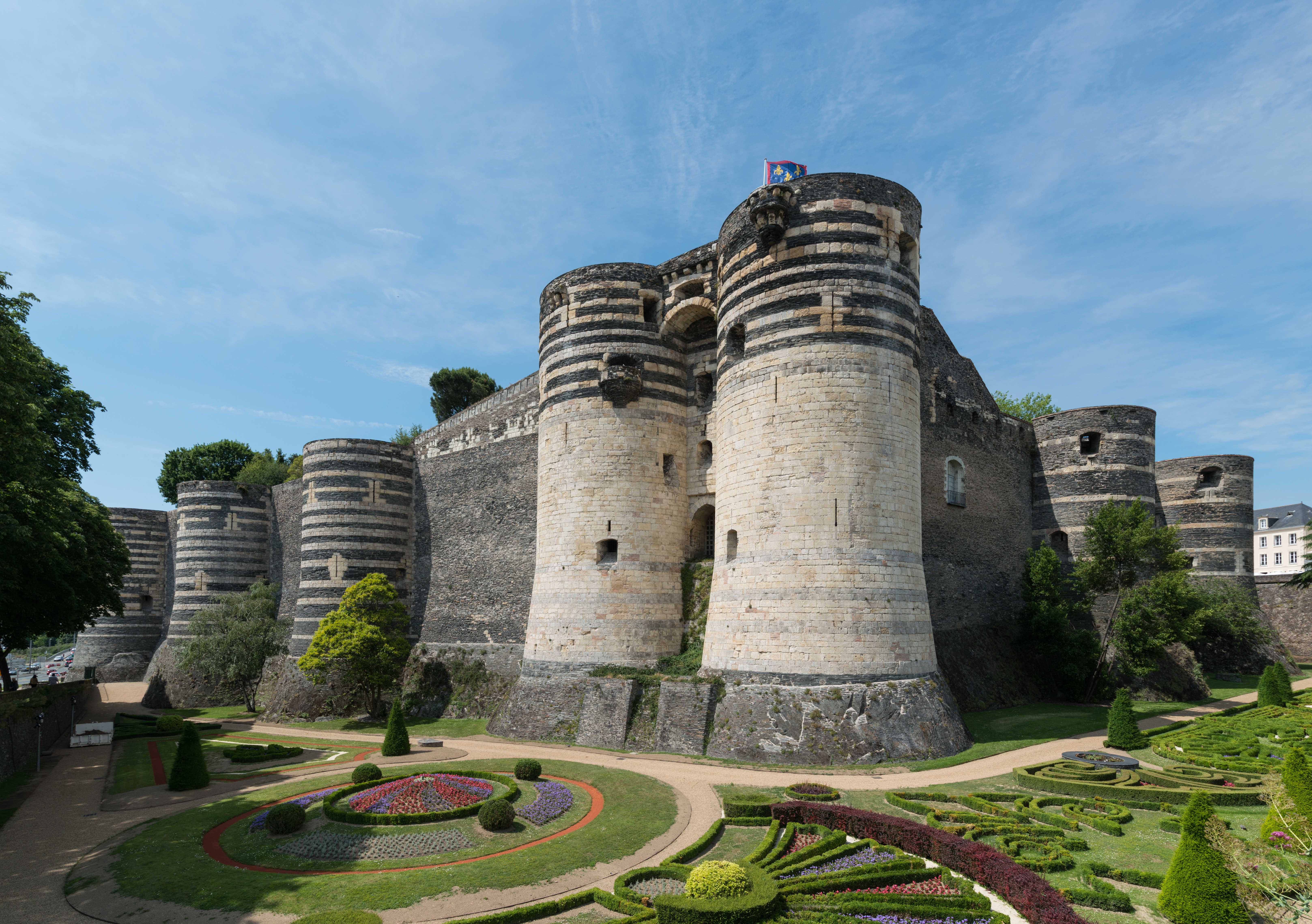 A south view of Château d'Angers